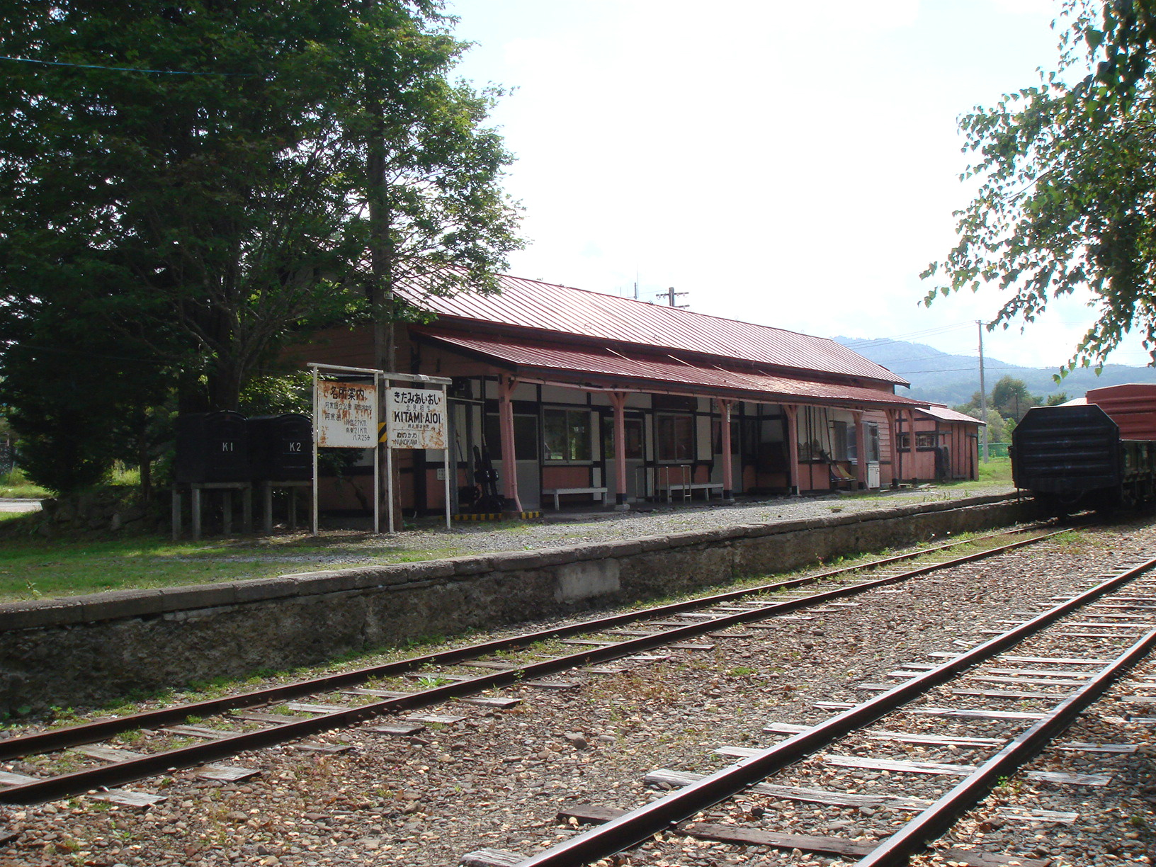 Kitami-Aioi Station ruin at Michinoeki Aioi in Tsubetsu Town, Hokkaido, Japan